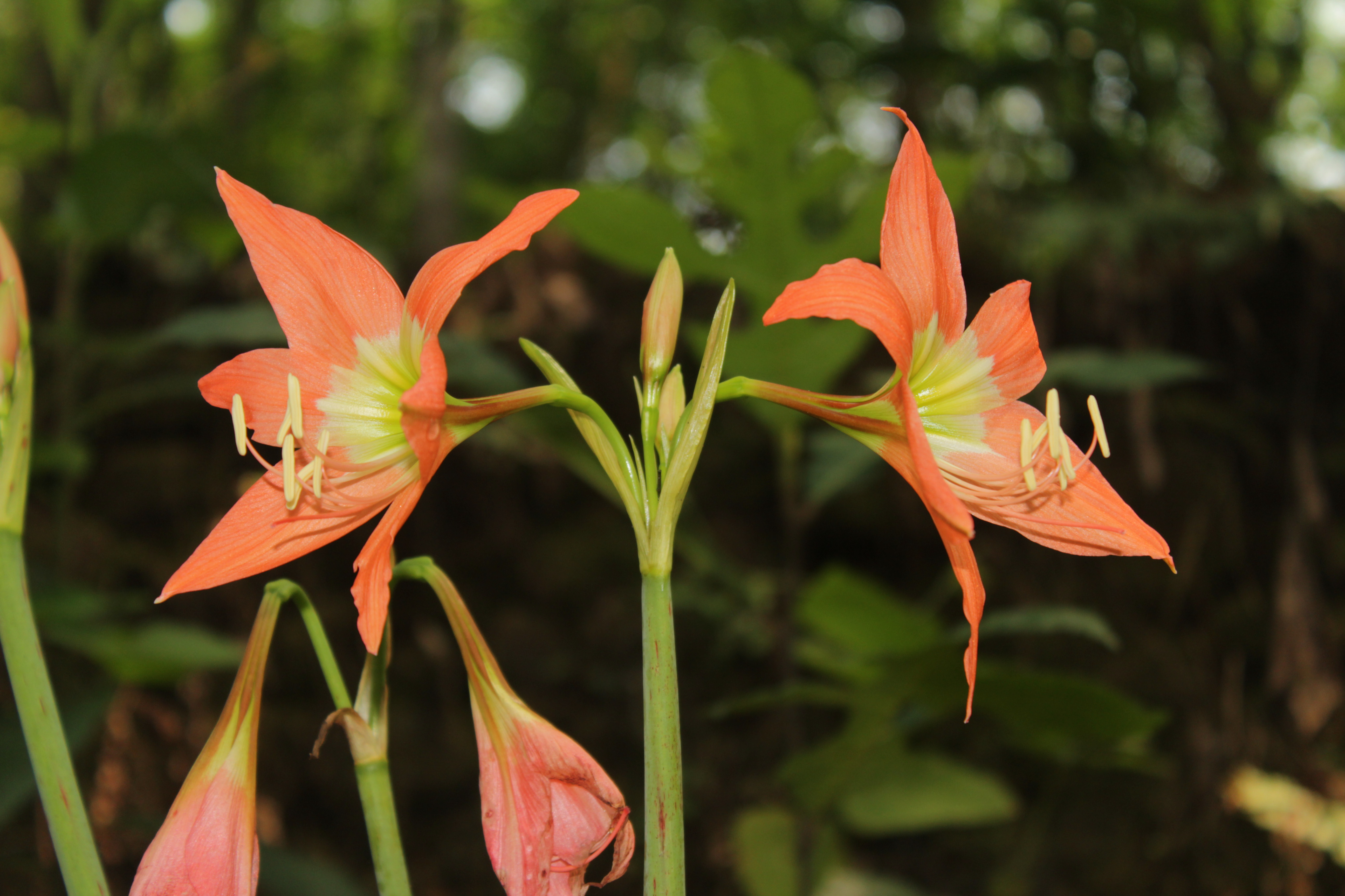 Barbados lily (Hippeastrum puniceum) flowers. Photographed near Kanjirappally, Kerala.